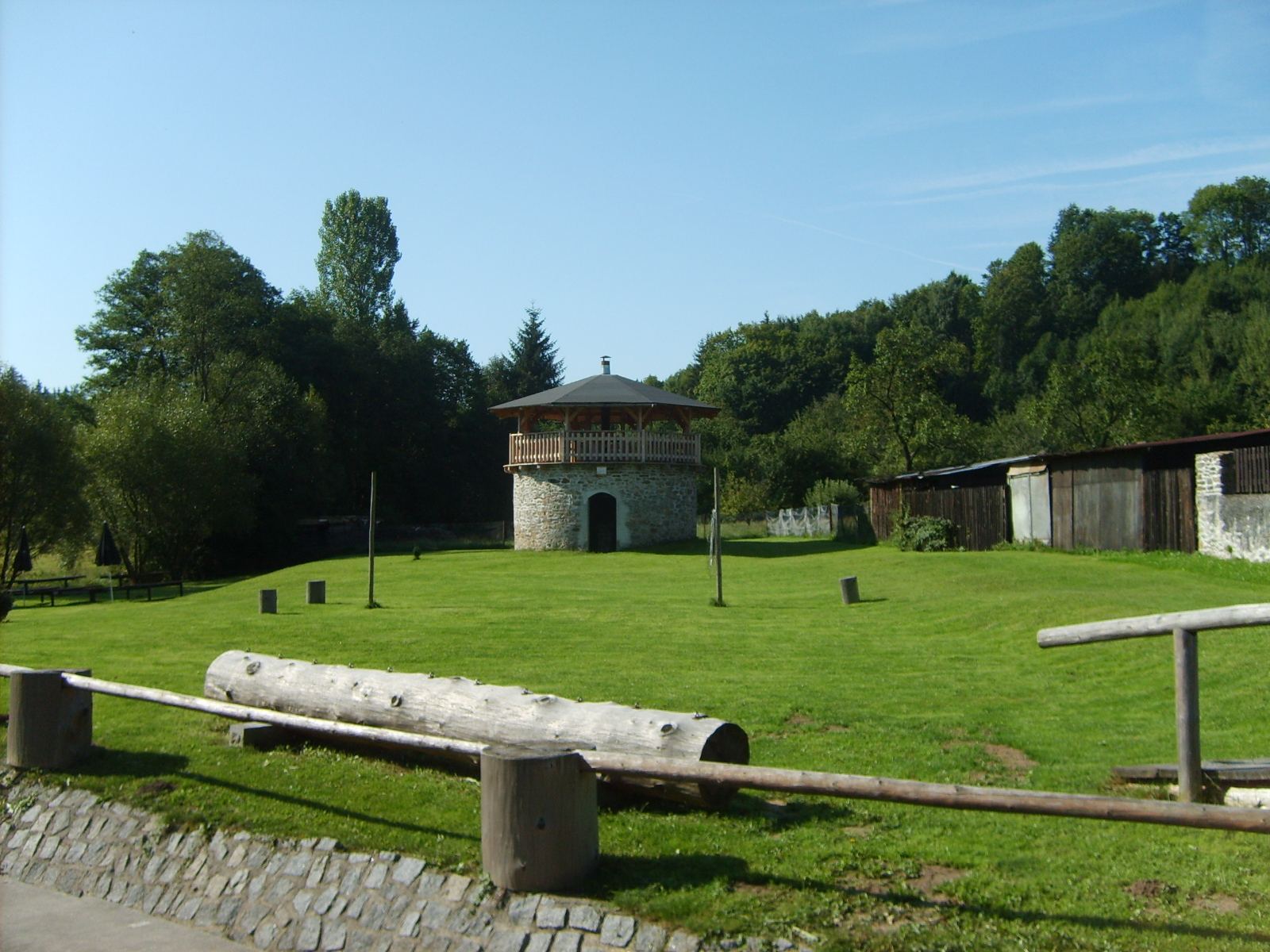 Rest of fortress in Jiřičná, part of Petrovice u Sušice municipality.